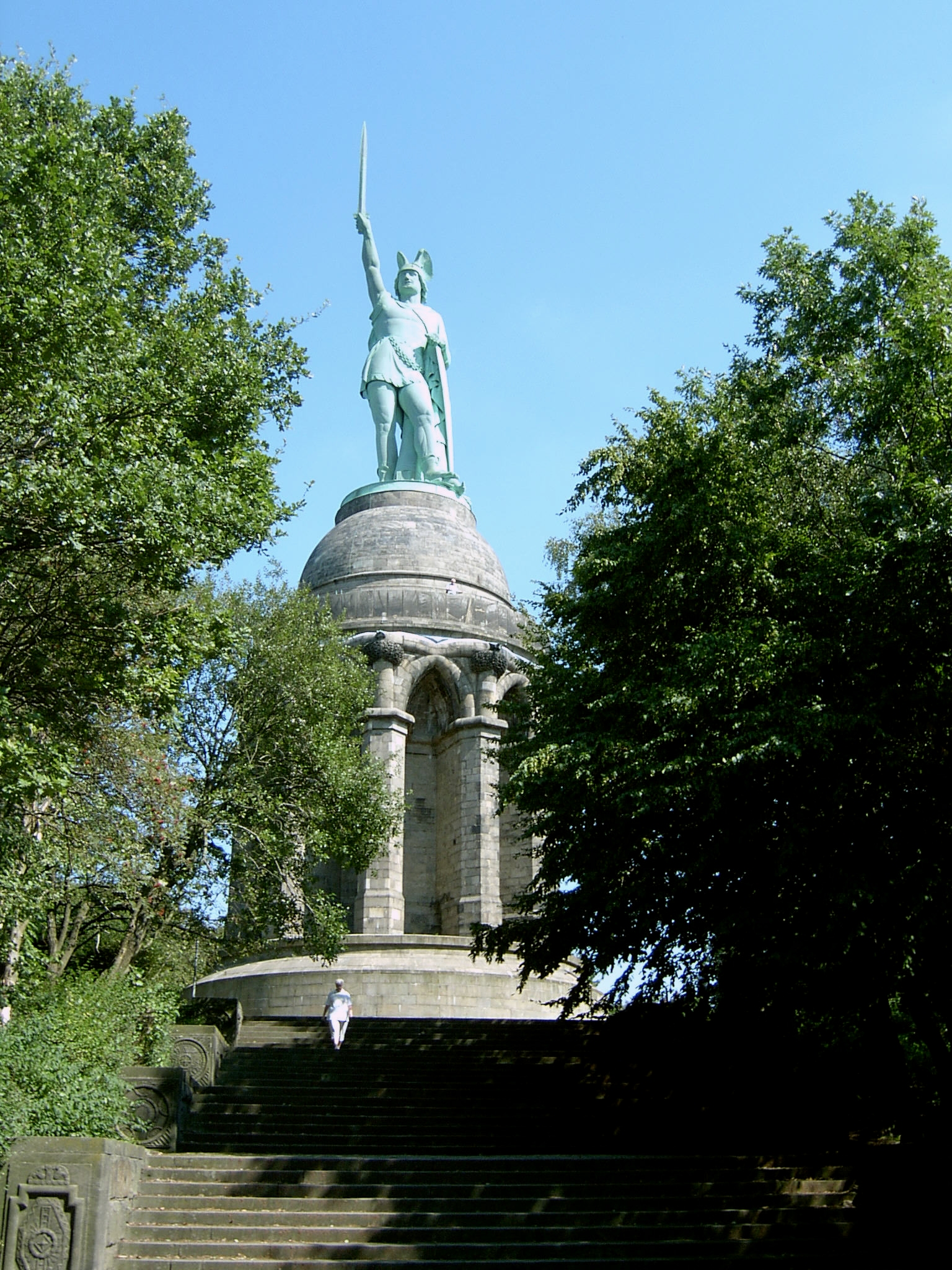 Monument of Hermann in Teutoburg Forest, Germany